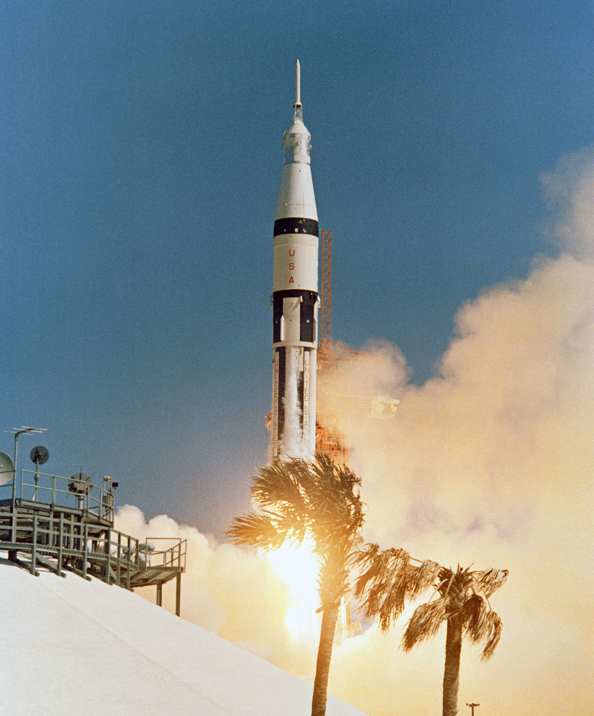 The Apollo 7/Saturn IB space vehicle is launched from the Kennedy Space Center's Launch Complex 34 at 11:03 a.m. on Oct. 11, 1968.